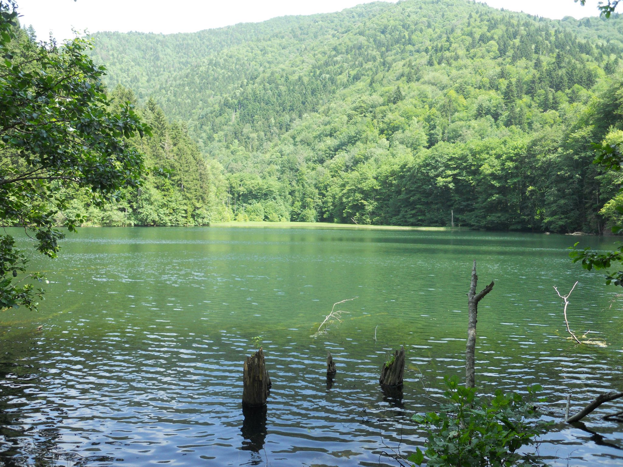 Bateti lake, Georgia